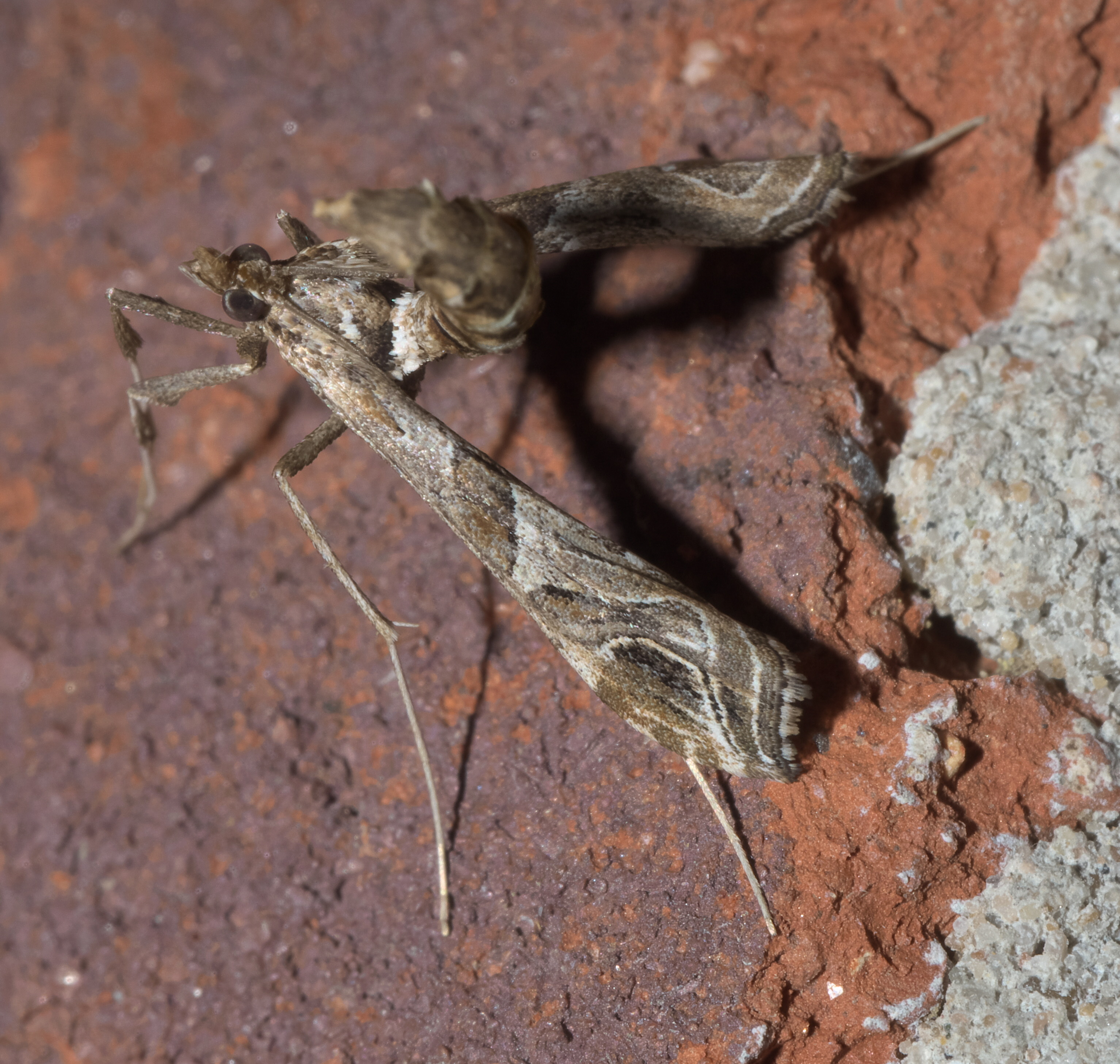 Lineodes interrupta, Hodges #5108, ID Confidence: 90